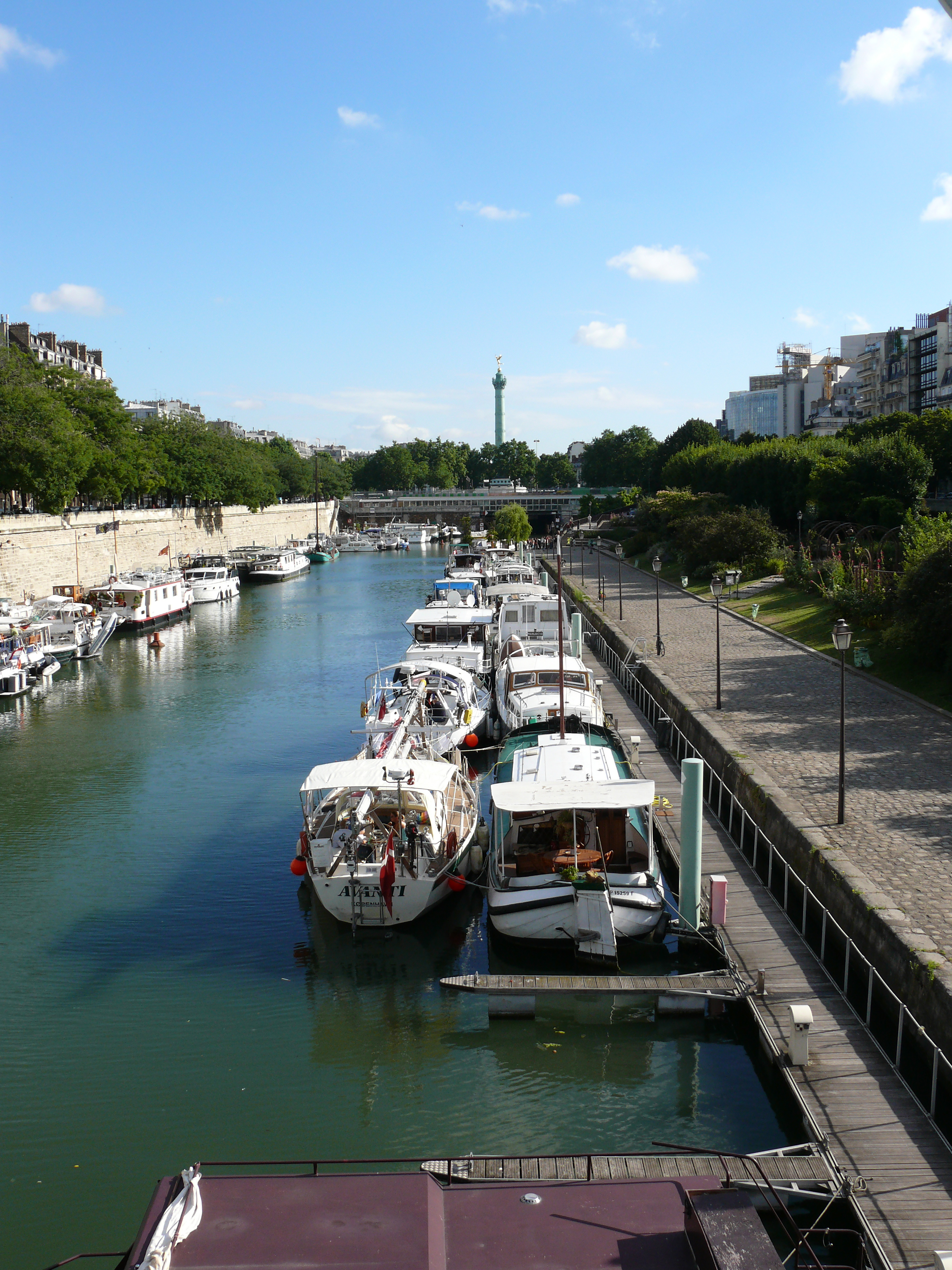 The Bassin de l'Arsenal (also known as the Port de l'Arsenal) is a boat basin in Paris. It links the Canal Saint-Martin, which begins at the Place de la Bastille, to the Seine, at the Quai de la Rapée.